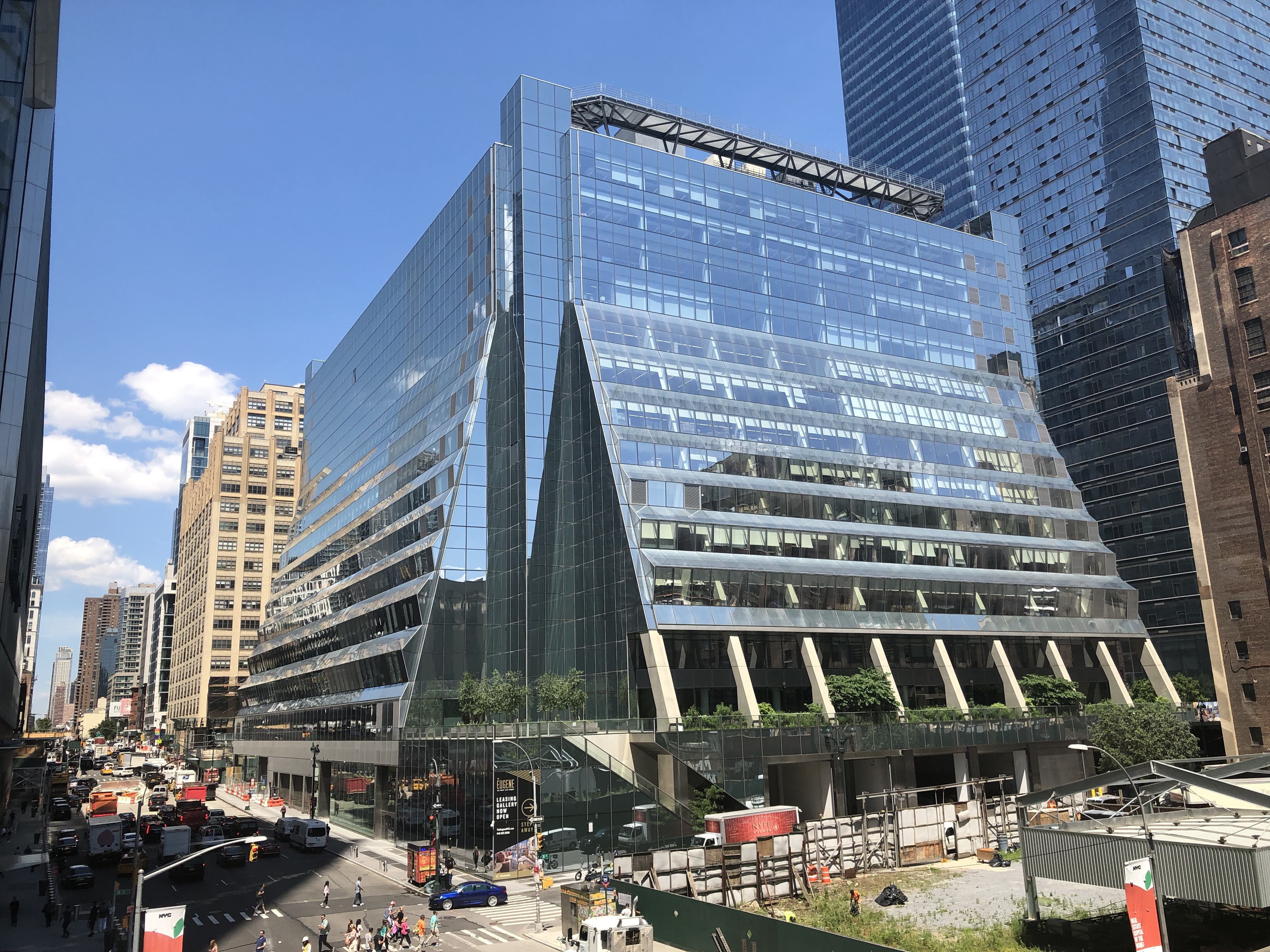 View of 5 Manhattan West from the High Line. Also known as 450 West 33rd Street and as the Westyard Distribution Center.